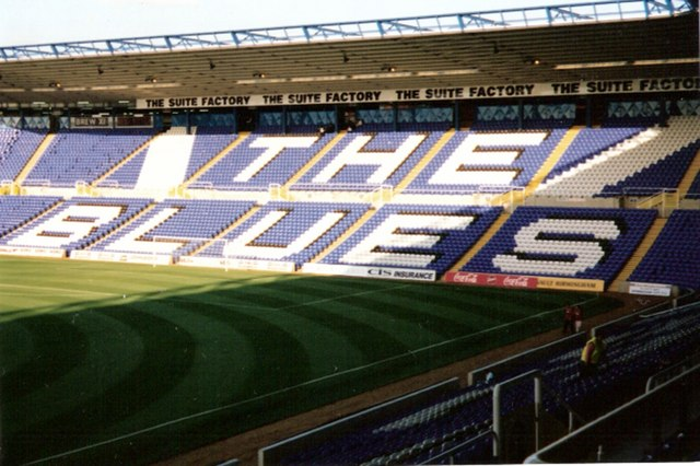 St Andrews home of Birmingham City FC. Viewing the Tilton Road from the Spion Kop 1996.